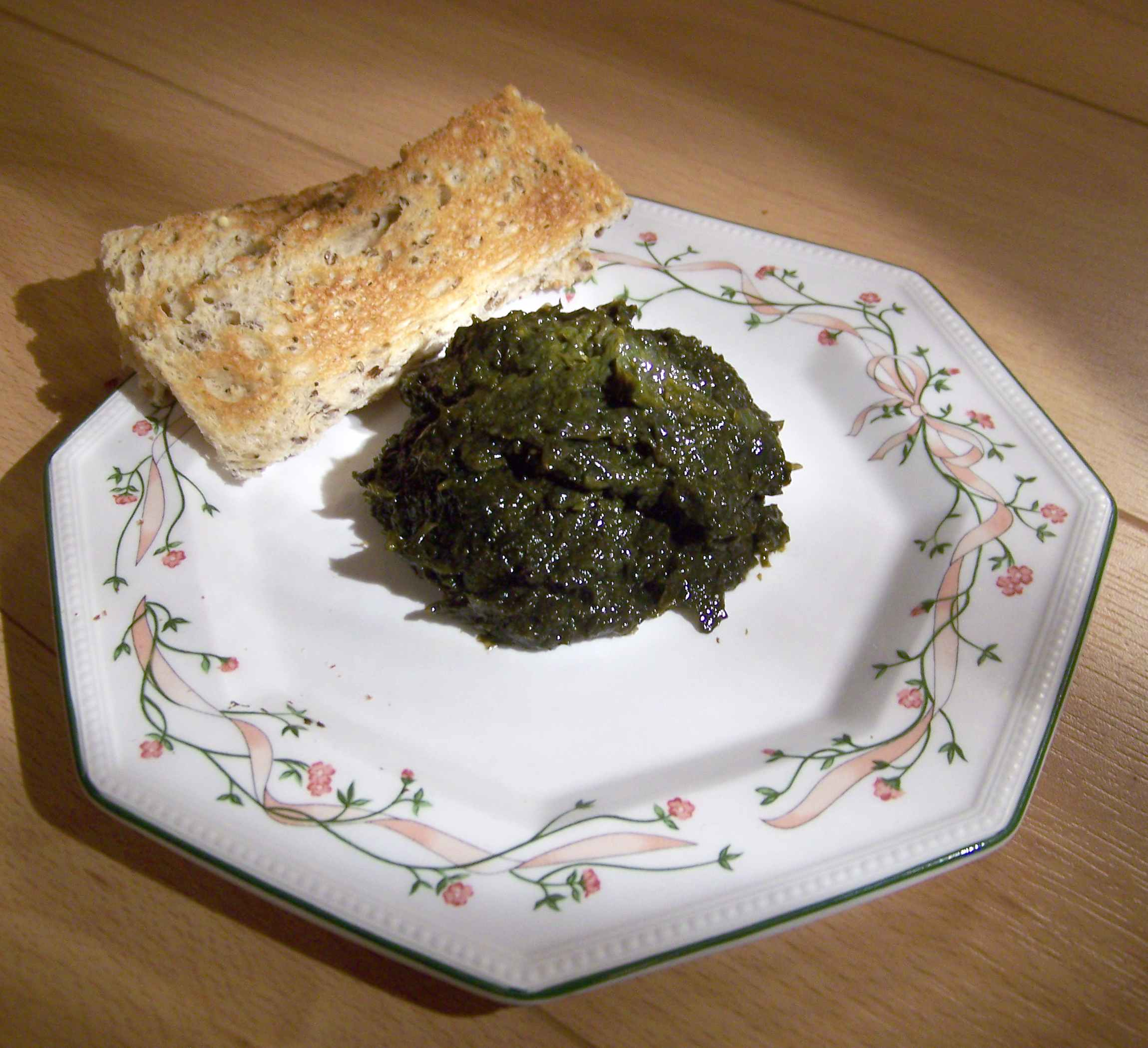 Laver and Toast on an Eternal Beau china plate.